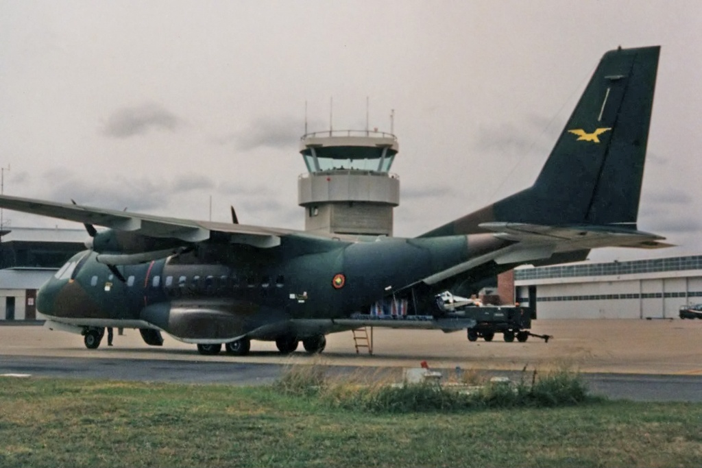 PNG Defence Force CN-235 at RAAF Fairbairn